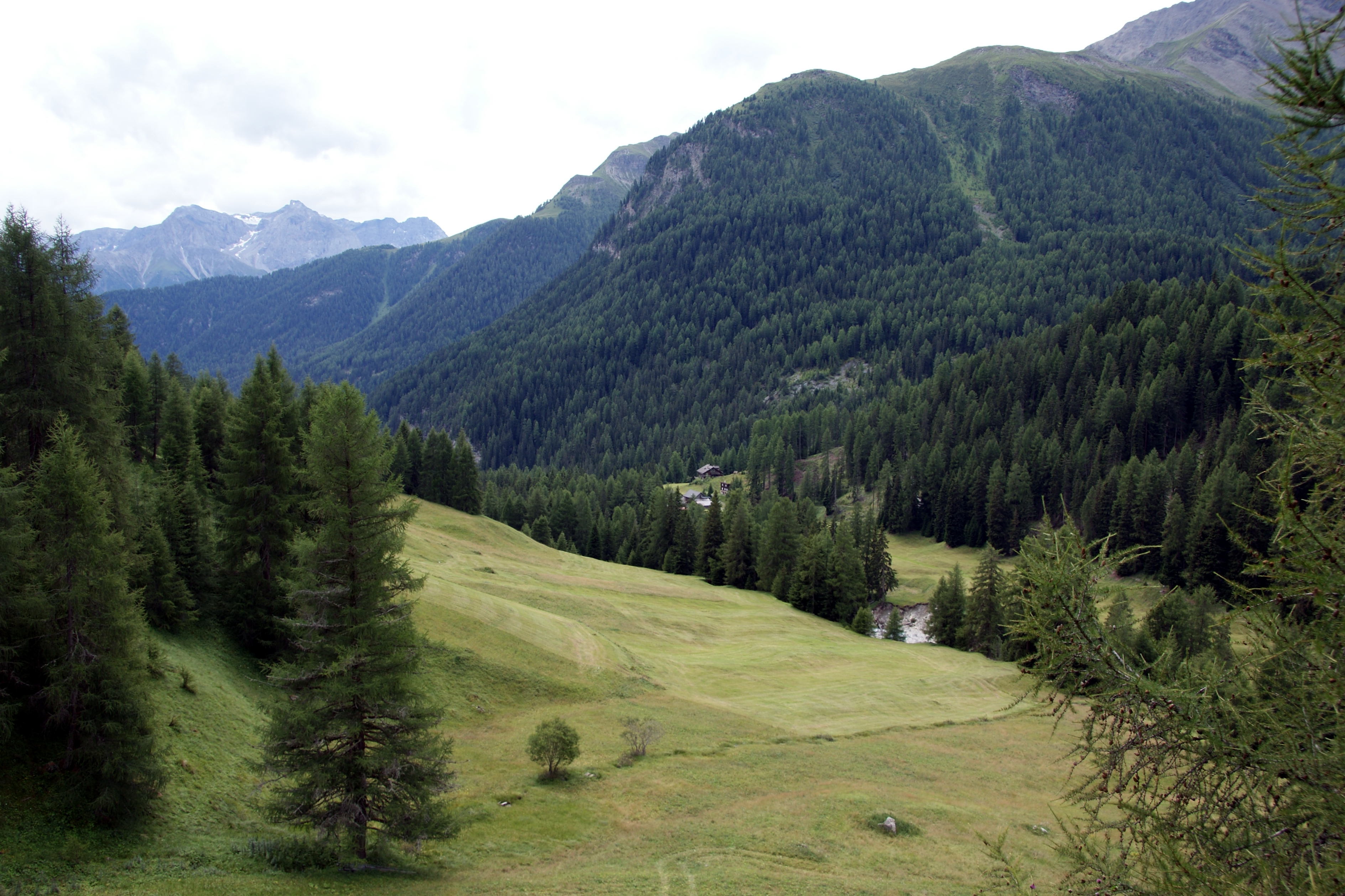 Val Sinestra, Lower Engadine